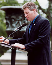 Rep. Robert Wexler source